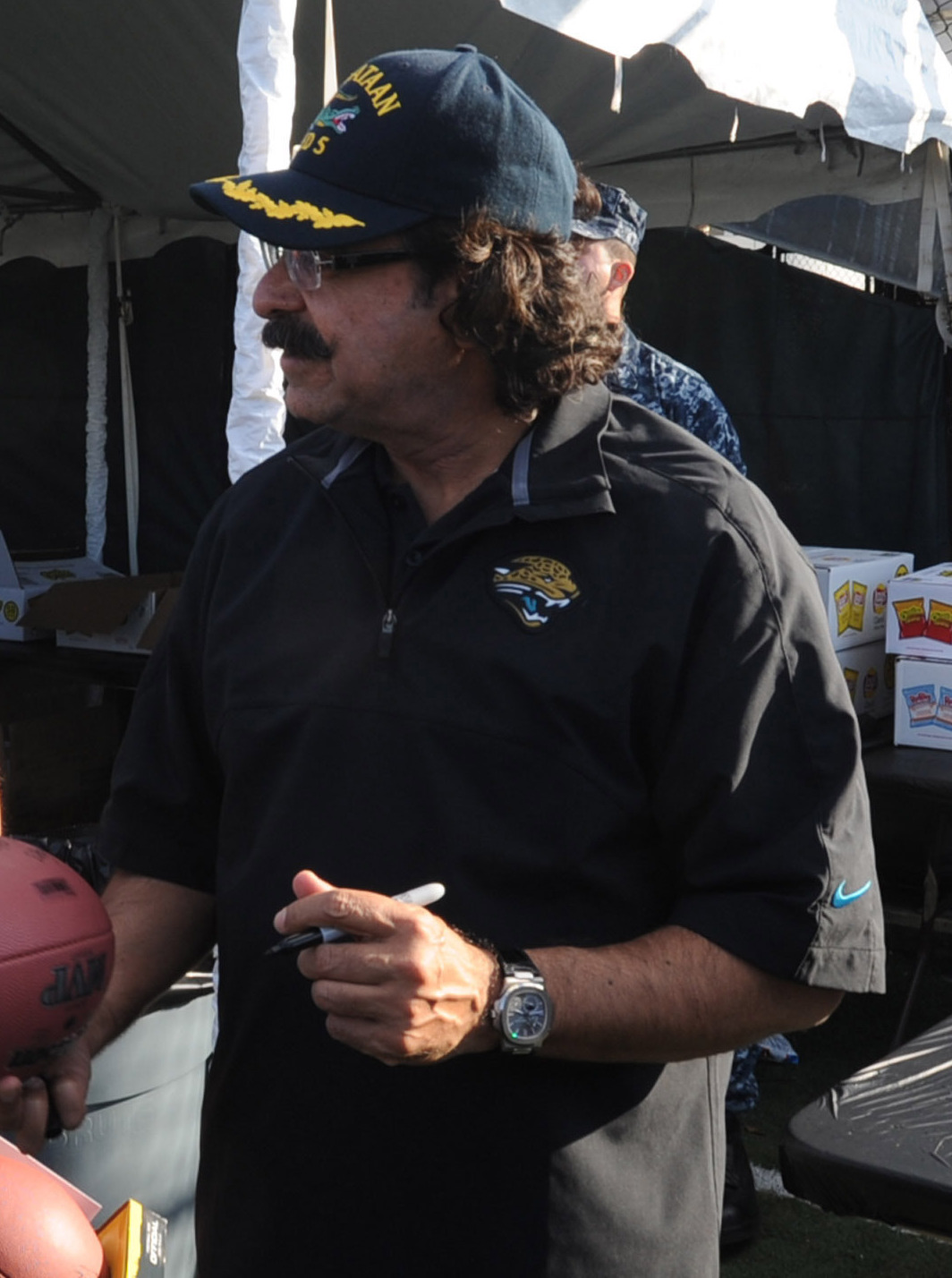 Shahid Khan, owner of the Jacksonville Jaguars, right, signs sports memorabilia for Sailors following a Jaguars practice. More than 300 sailors and Marines gathered in the Jaguars practice stadium to meet the players as part of the city of Jacksonville's "Week of Valor" and in preparation for the upcoming Navy-Marine Corps Classic. The game honors veterans, active and reserve service members, and military families. America's away team, the Navy and Marine Corps are reliable, flexible, and ready to respond worldwide on, above, and below the sea as well as ashore. Join the conversation in social media using #BBallOnDeck. (U.S. Navy photo by Mass Communication Specialist 2nd Class Gary A. Prill/Released)